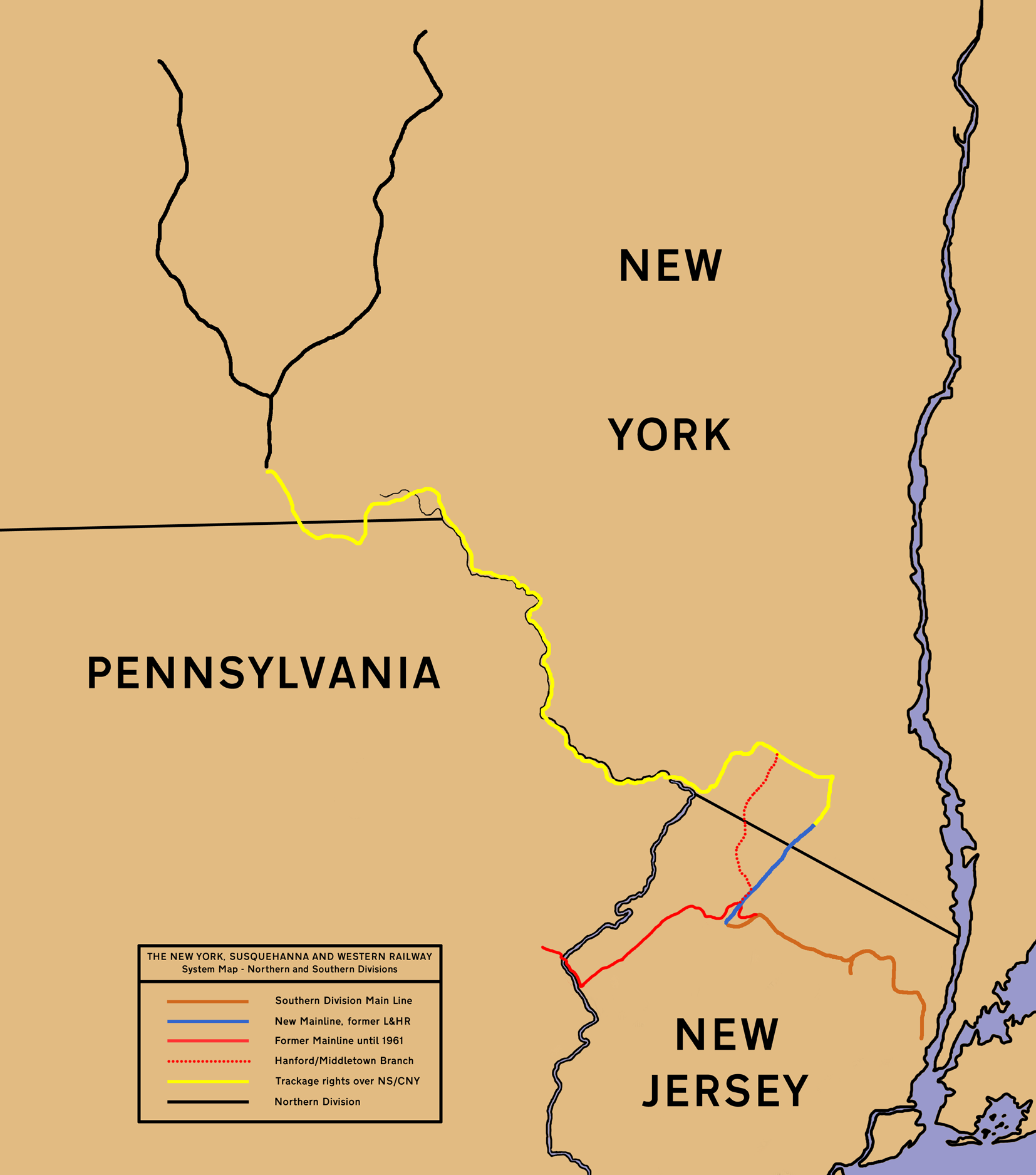 New York, Susquehanna and Western Railway System map for corresponding articles.